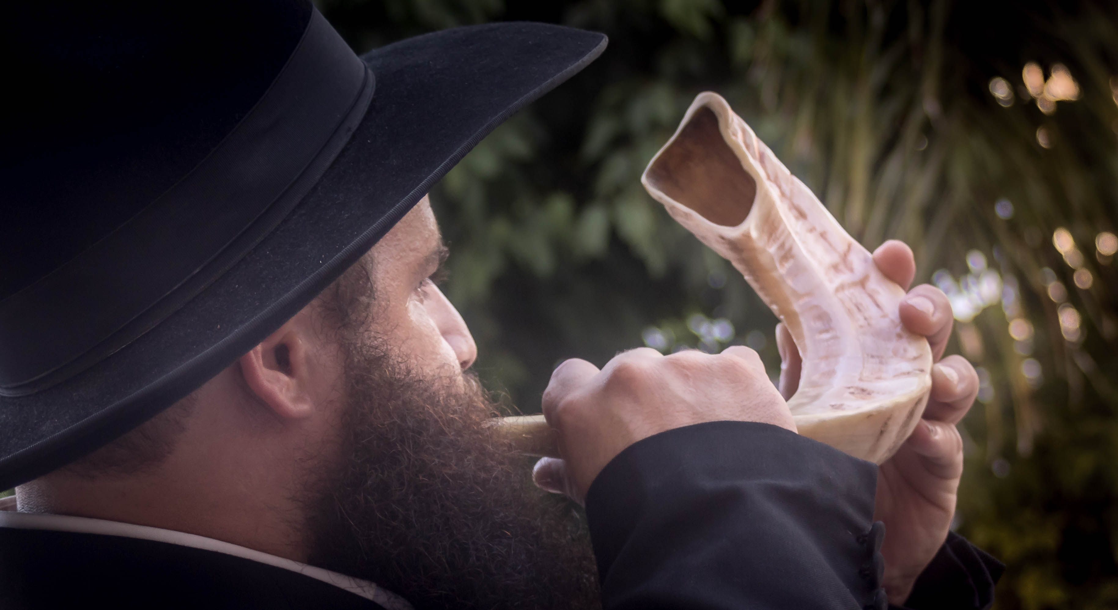 Shofar in Rosh Hashanah